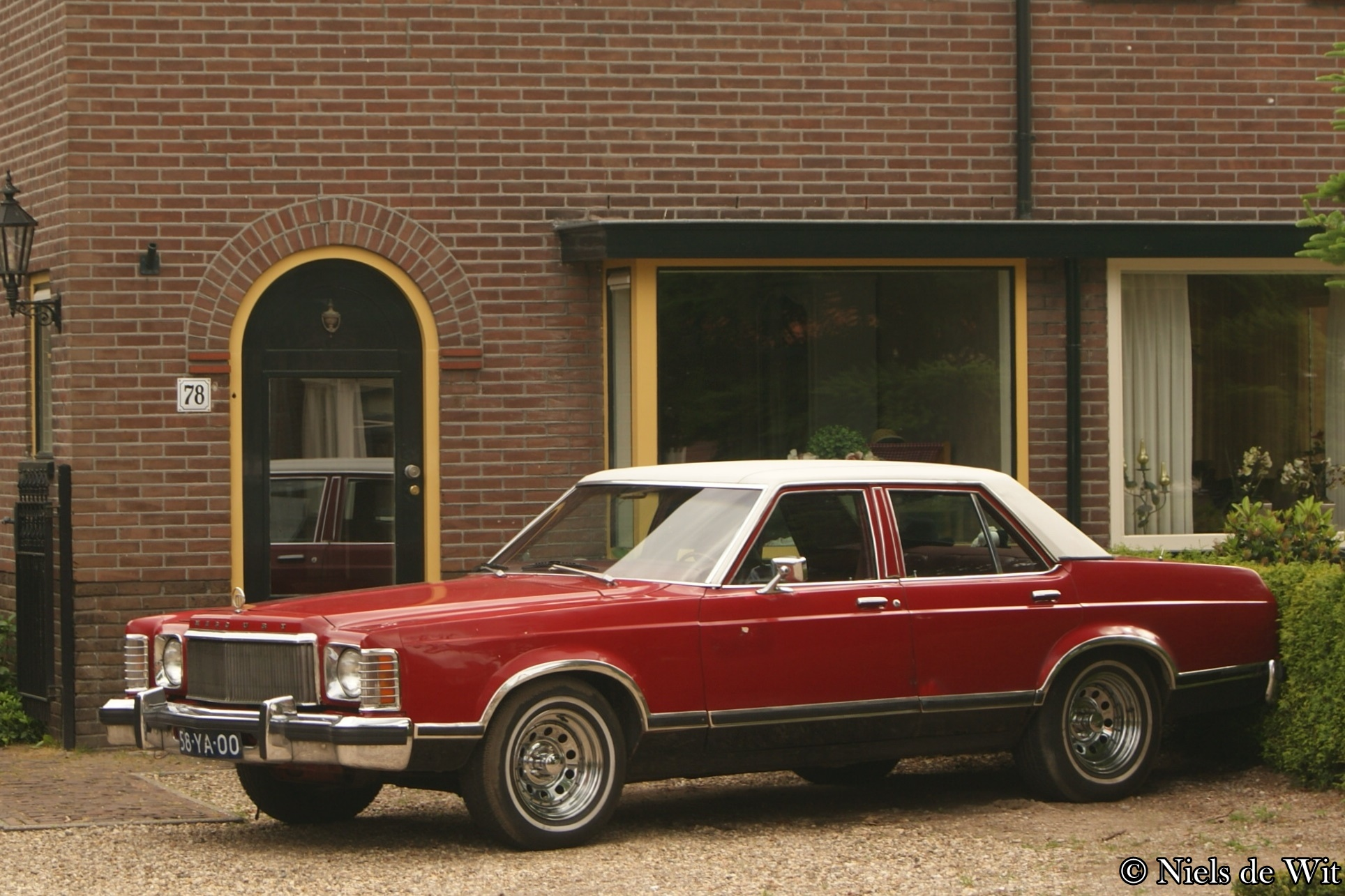 1977 Mercury Monarch Ghia four-door sedan (red with white vinyl roof).